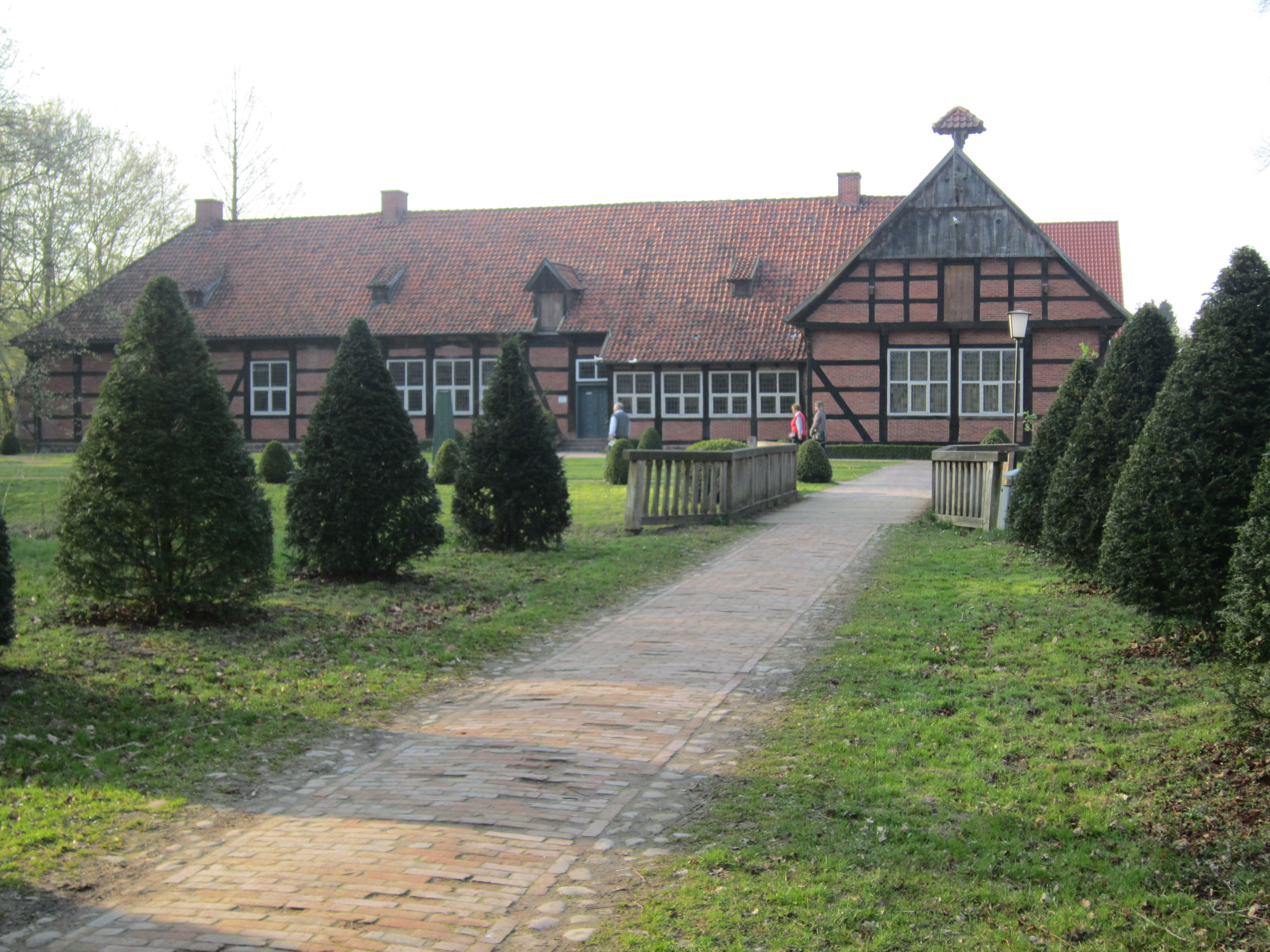 Arkenstede Manor in "Museumsdorf Cloppenburg"